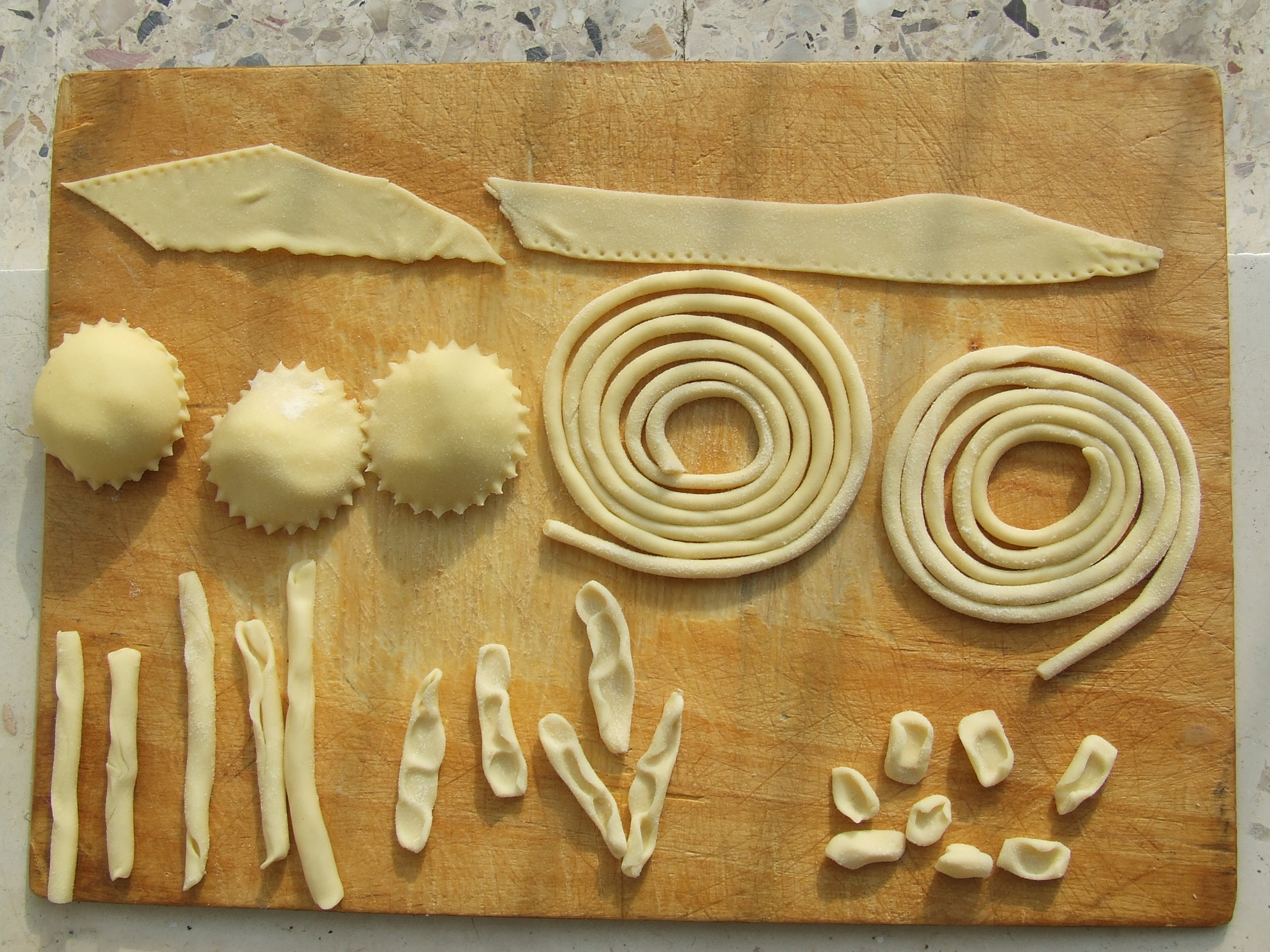 Various types of pasta